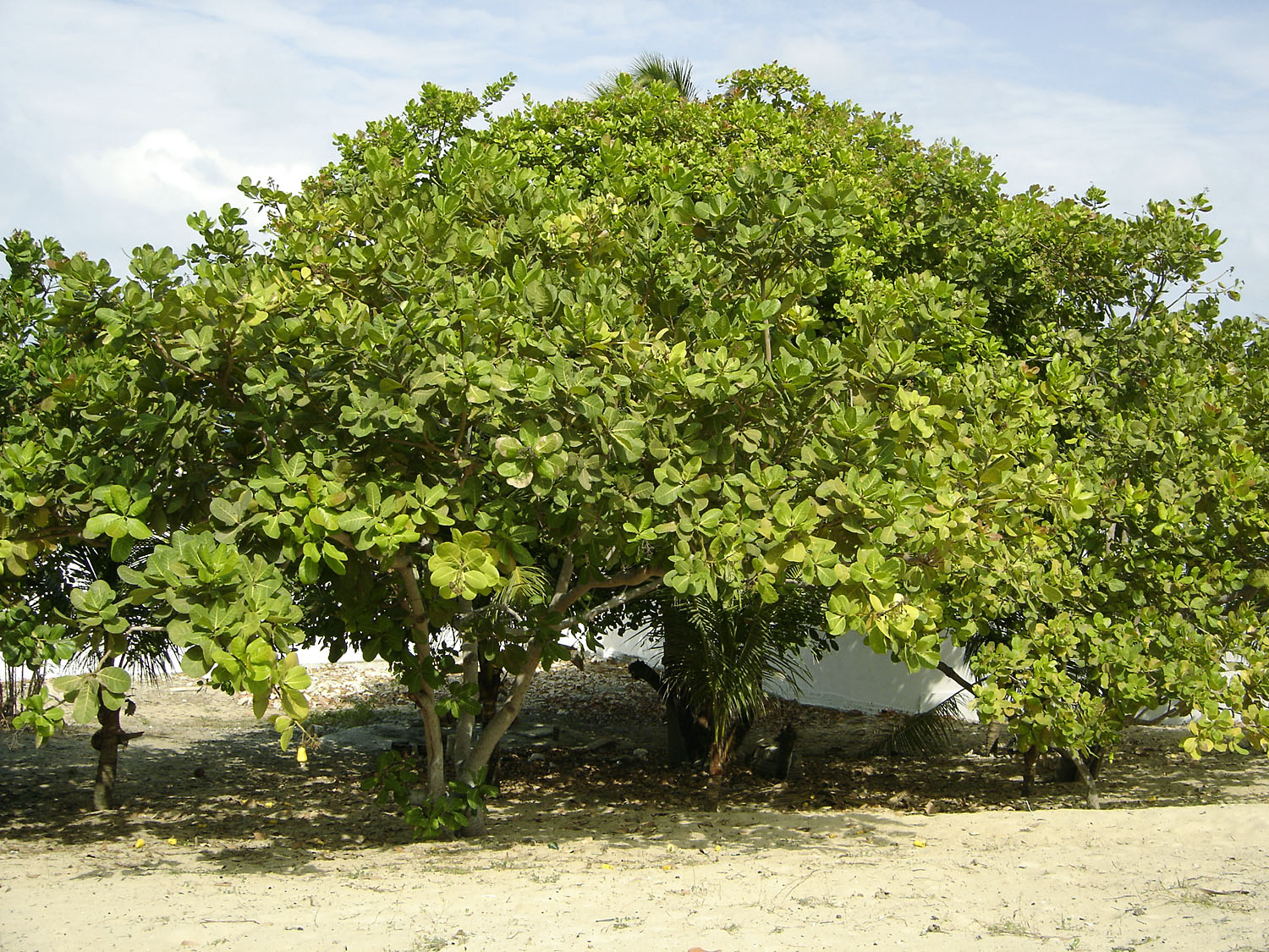 Cashew trees (Anacardium occidentale) in the town of Prainha near Fortaleza, Ceará, Brazil.